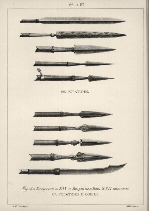 Heads of bear spears and sovnya.